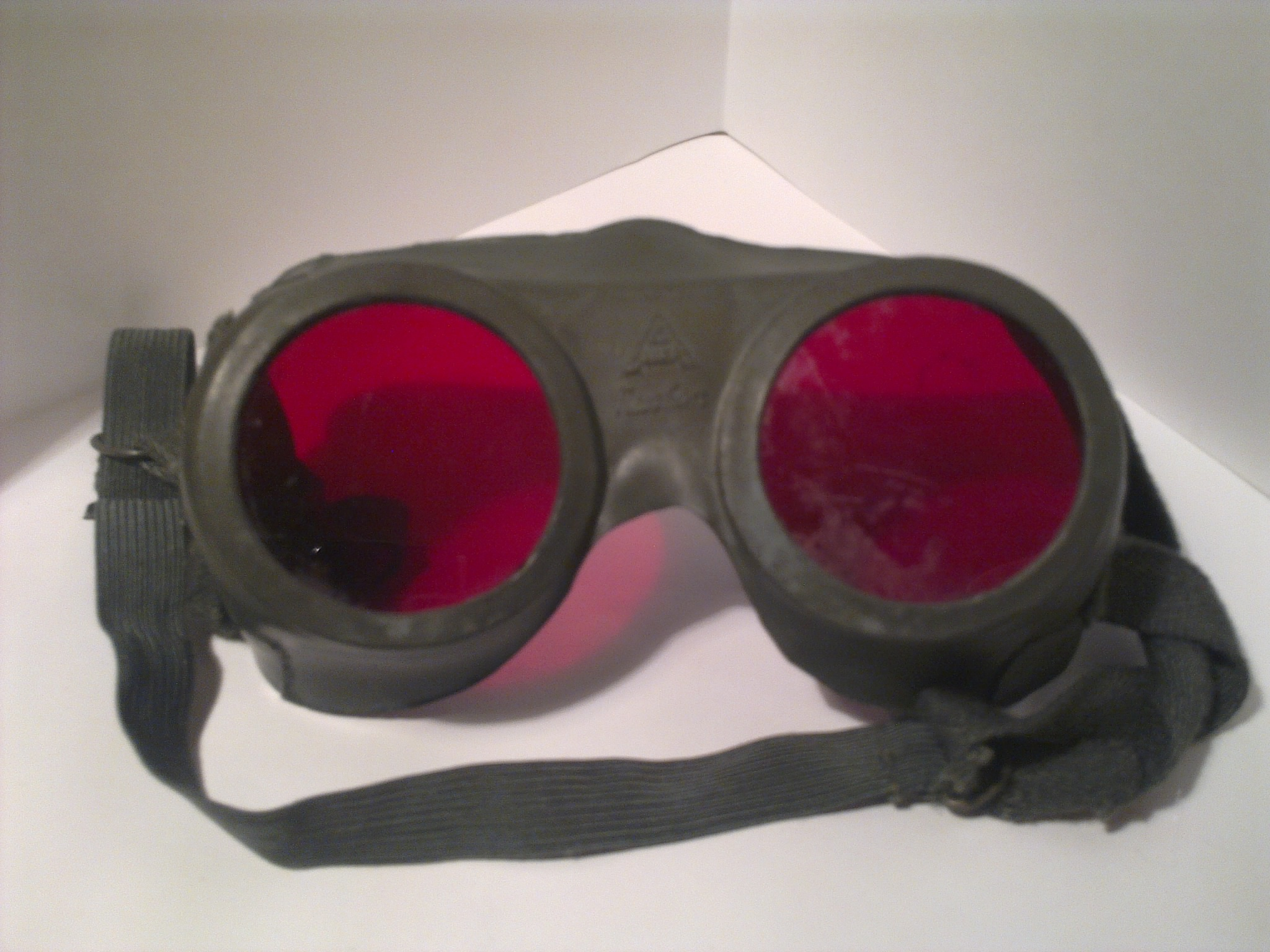 Auer Neophan Brille U-Bootbesatzungen 270/20